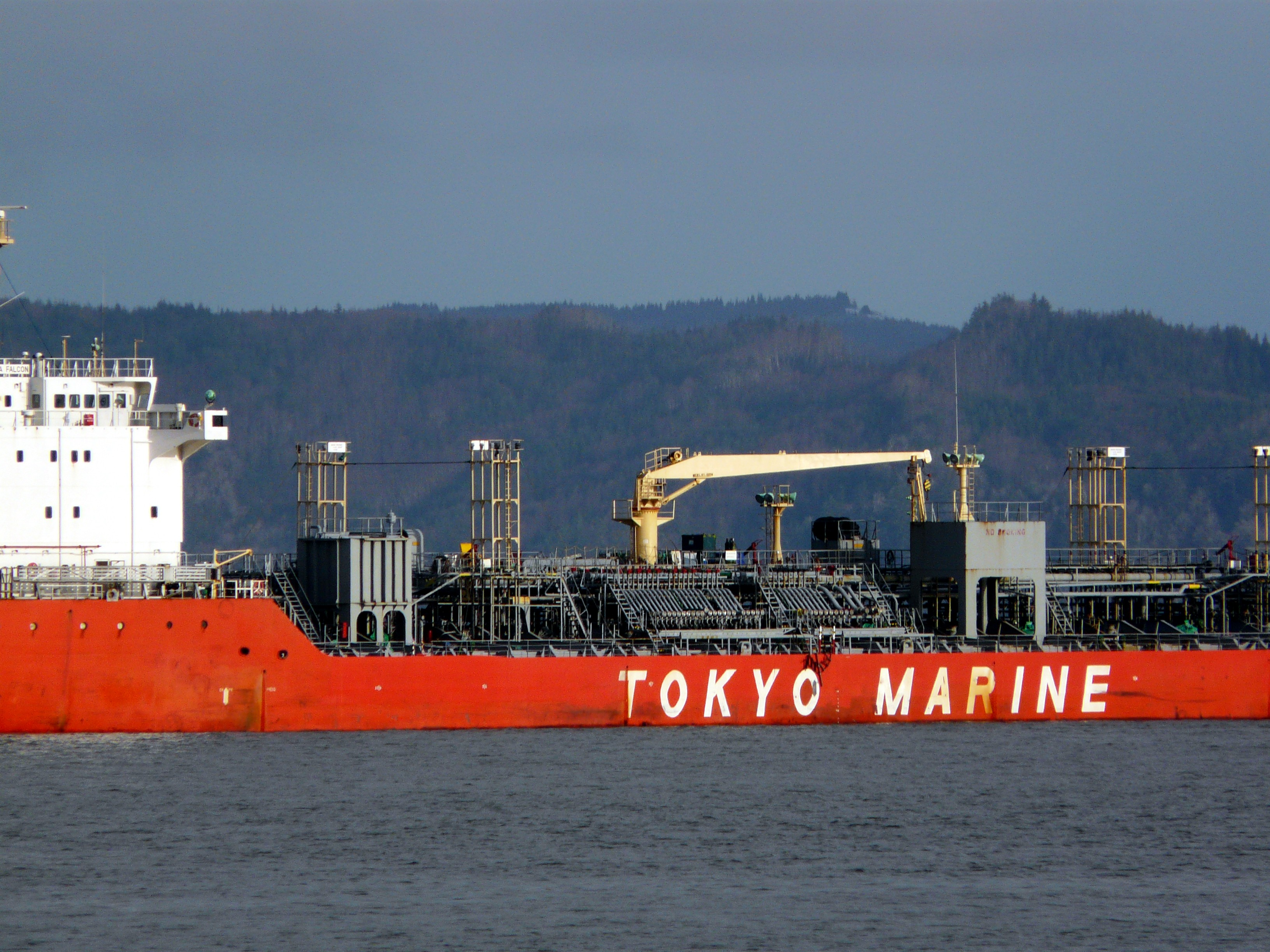 Piping of the Chemical Tanker Ginga Falcon Flag: Panama IMO Number: 9123386 MMSI Number: 356463000 Callsign: 3FGH6 Length: 152 m Beam: 25 m